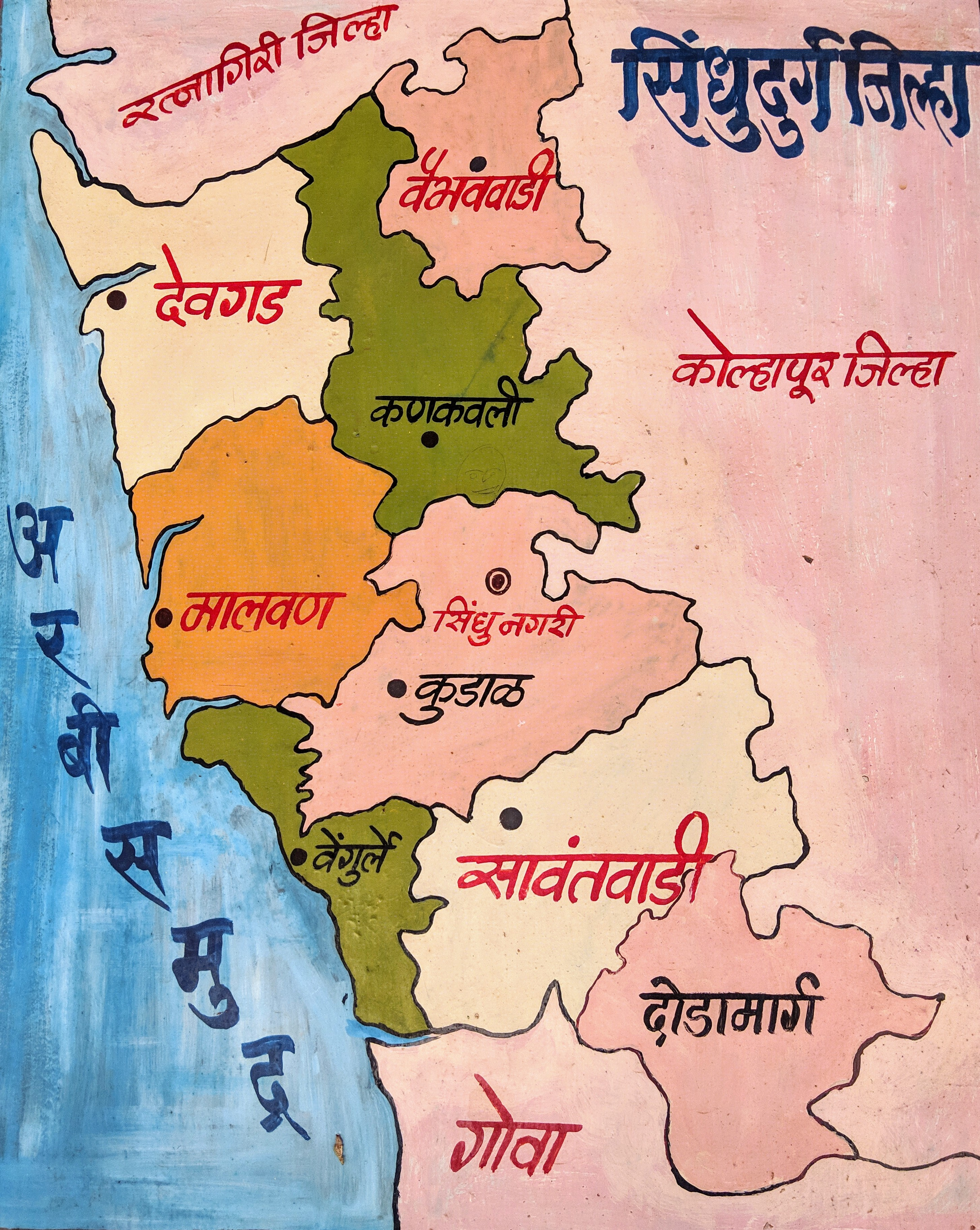 This is the Map of Sindhudurg district and its Taluka's with Correct Borders